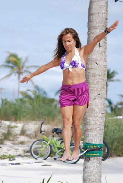 Francis practicando Slackline